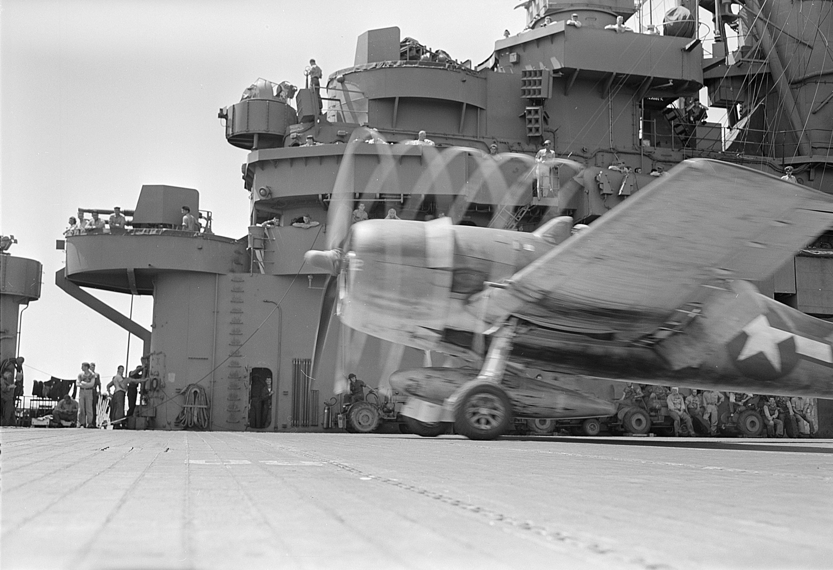 A U.S. Navy Grumman F6F-3 Hellcat from Fighting Squadron VF-16, Carrier Air Group 16, goes down deck for take-off of the aircraft carrier USS Lexington (CV-16) during the Gilbert Islands campaign.